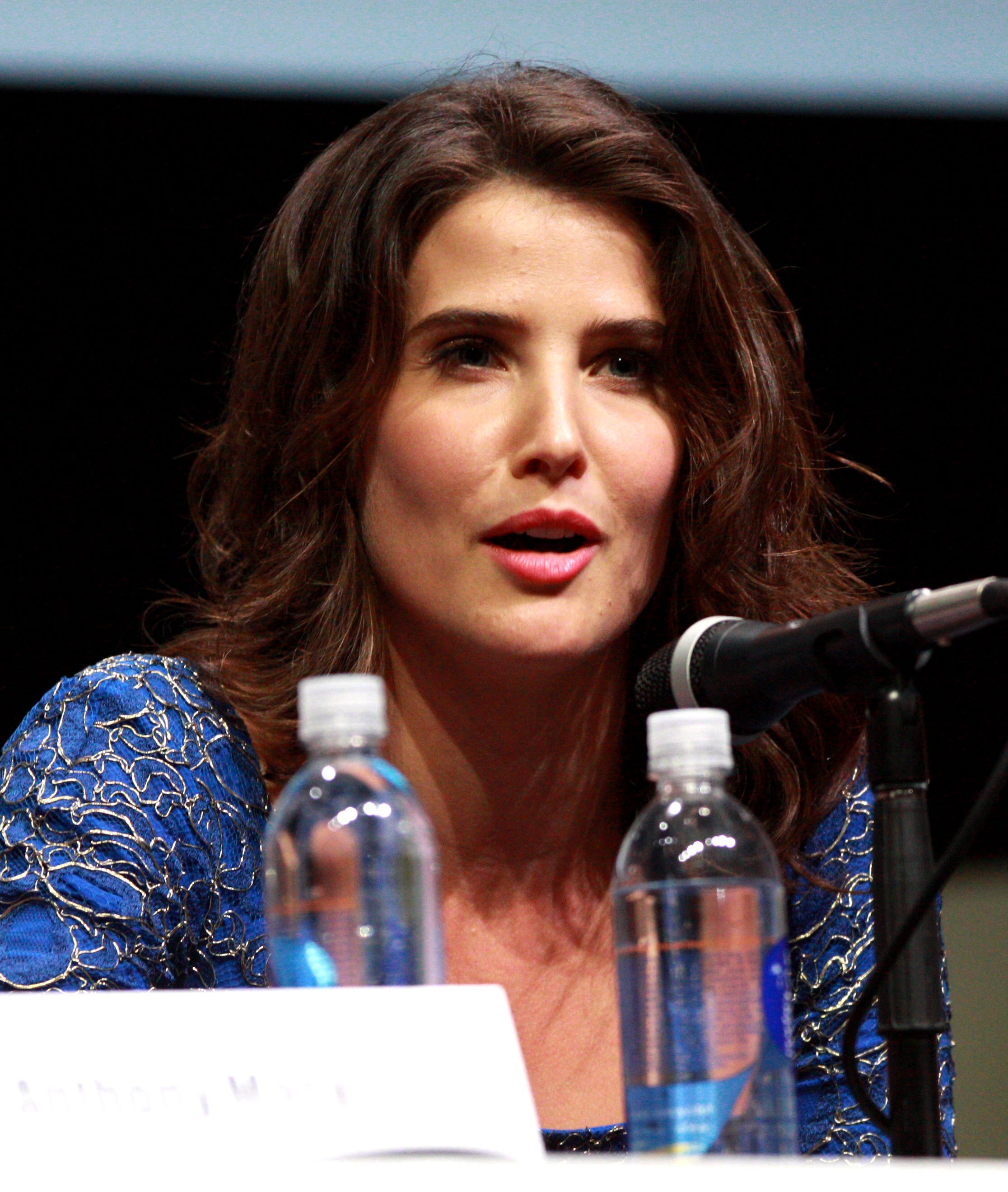 Cobie Smulders at the 2013 San Diego Comic Con International in San Diego, California.